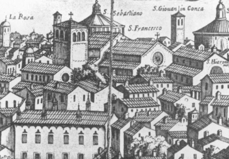 Map of a district of Milan including the church San Francesco Grande - 1640